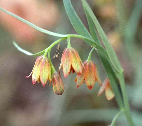 Fritillaria eastwoodiae. US Forest Service photo, no copyright.